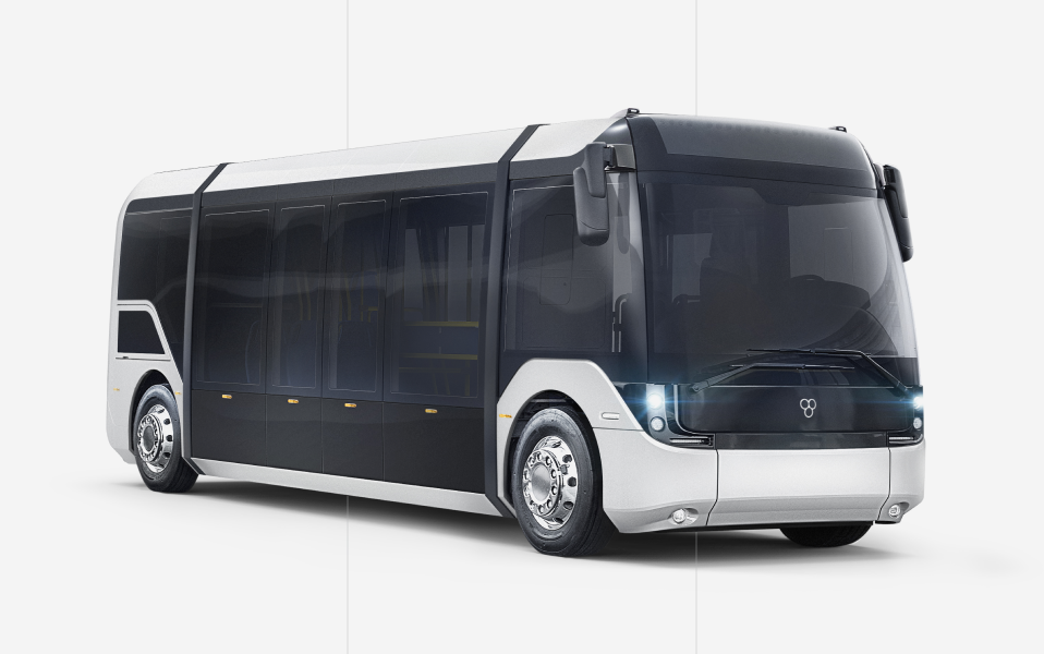 VERO city bus